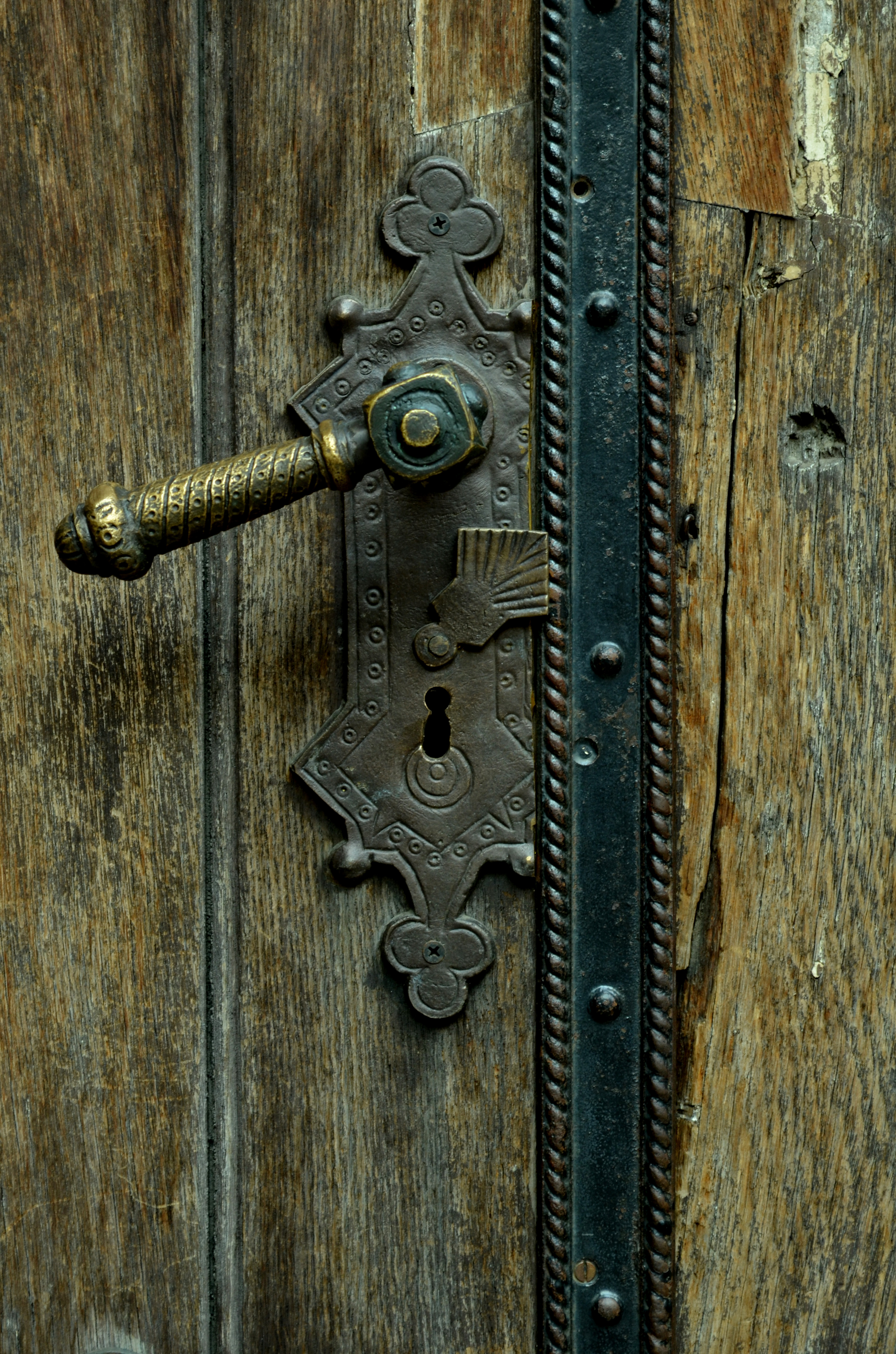 Novi Sad Synagogue is one of many cultural institutions in Novi Sad, Serbia, in the capital of Serbian the province of Vojvodina. Located on Jevrejska (Jewish) Street, in the city center, the synagogue has been recognized as a historic landmark. It served the local Neolog congregation. It was built between 1906 and 1909.